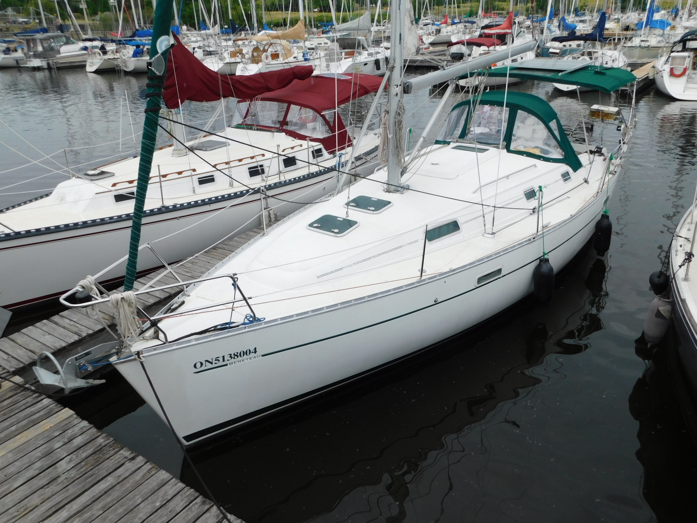 A Beneteau 331 sailboat named Me Minou.